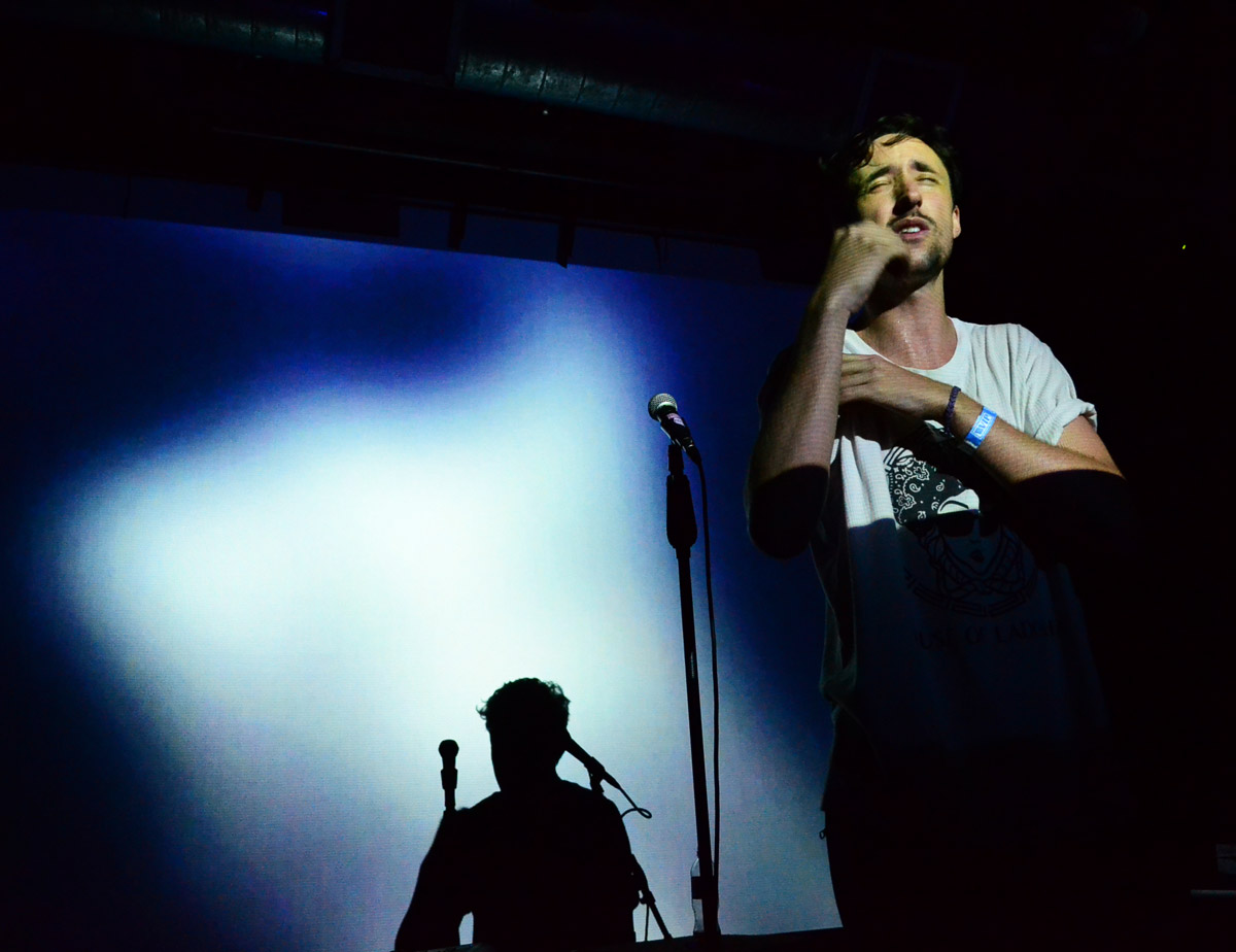 a live image i took of how to dress well singing live